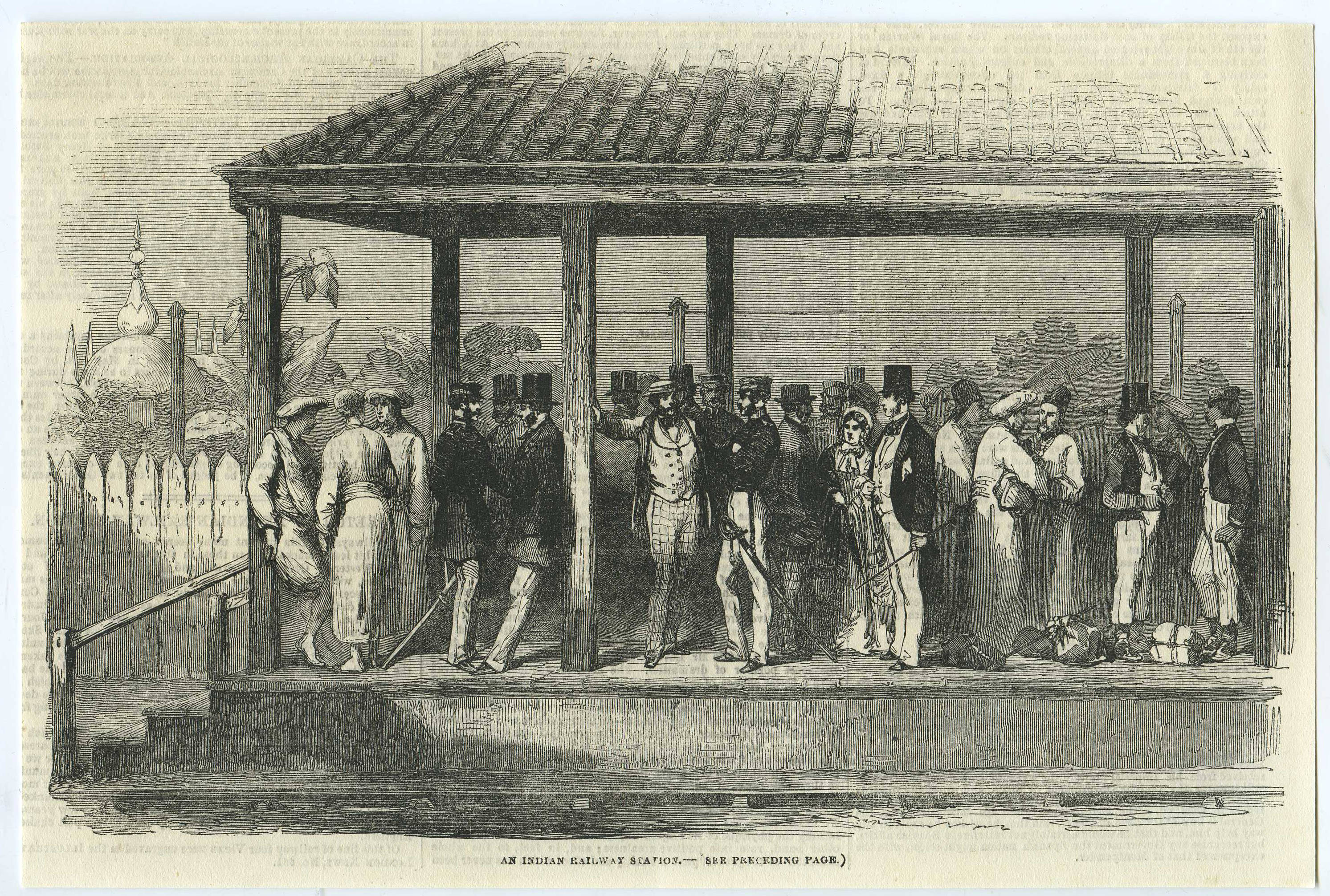 An Indian Railway Station, 1854